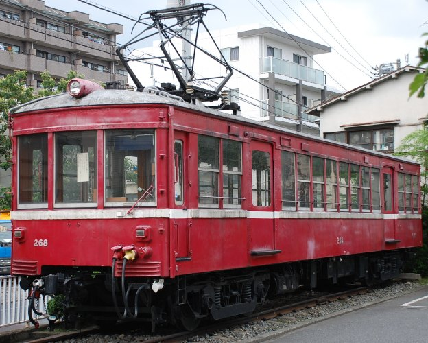 Keihin kyuko Electric Type 230. Japanese interurban car.